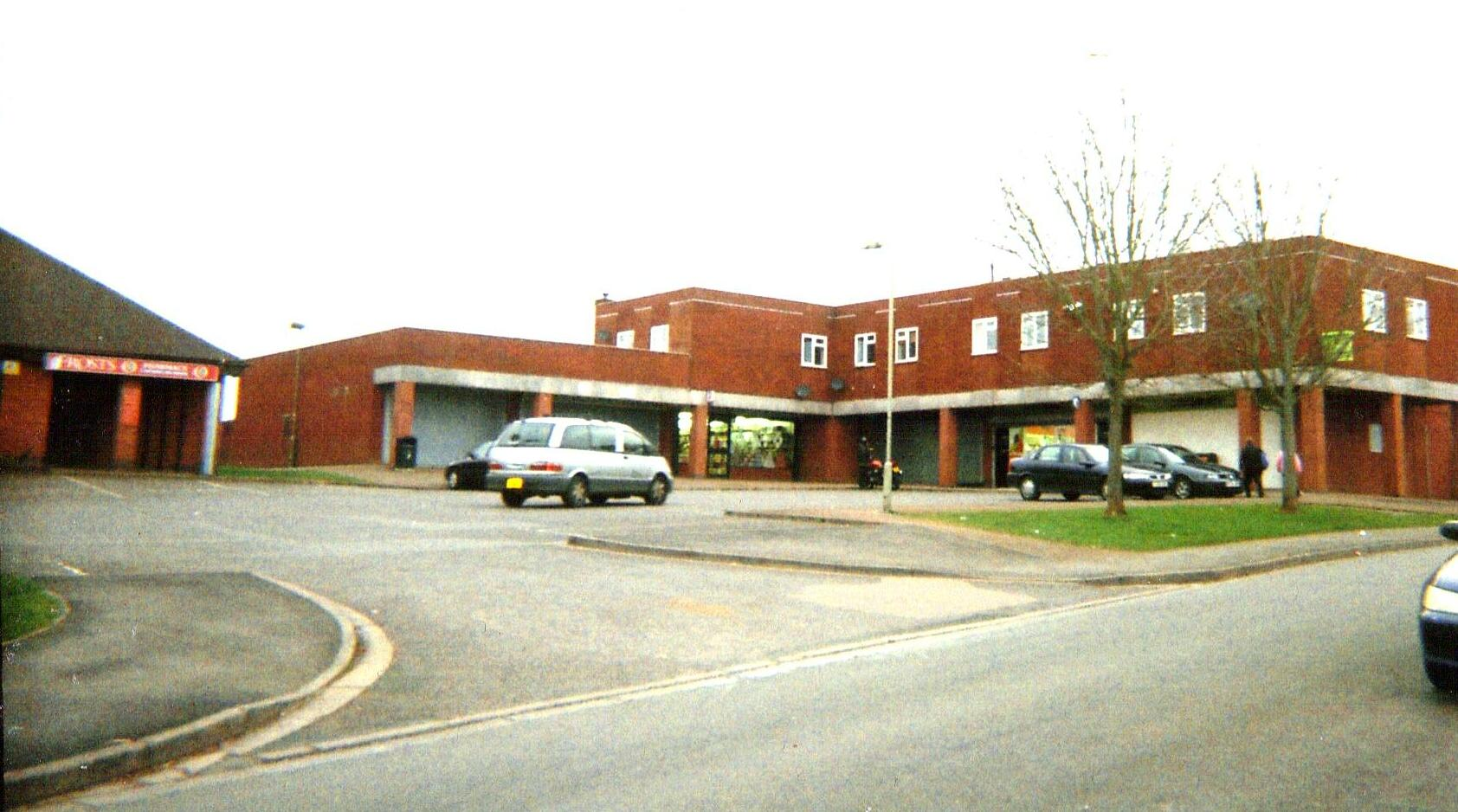 The Hardwick Archade shoppince mall in 2011. I will finish touching it up soon.